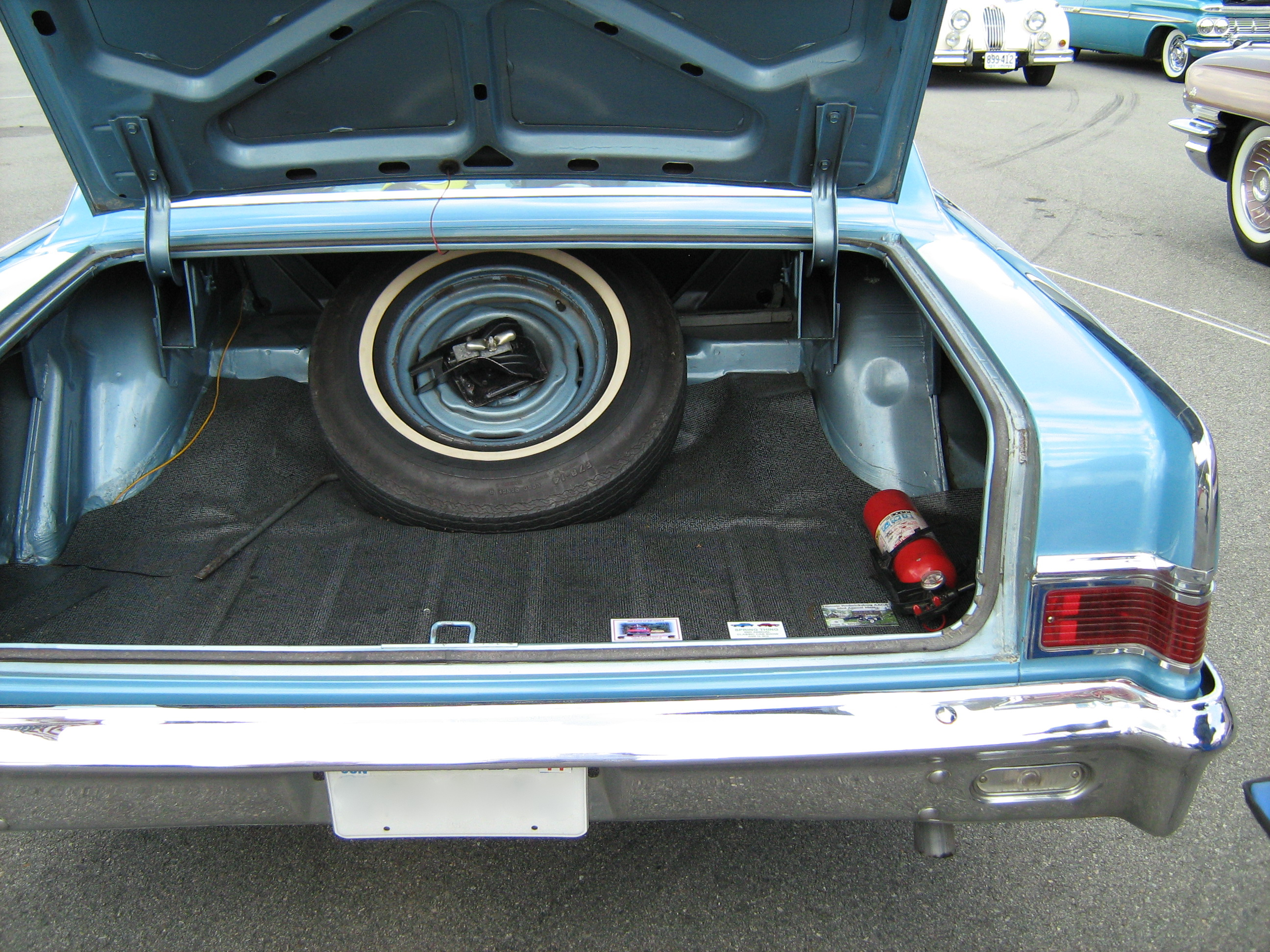 View of the roomy trunk of a 1965 Rambler Classic 660, built by American Motors Corporation (AMC). A four-door sedan finished in blue with a white top.